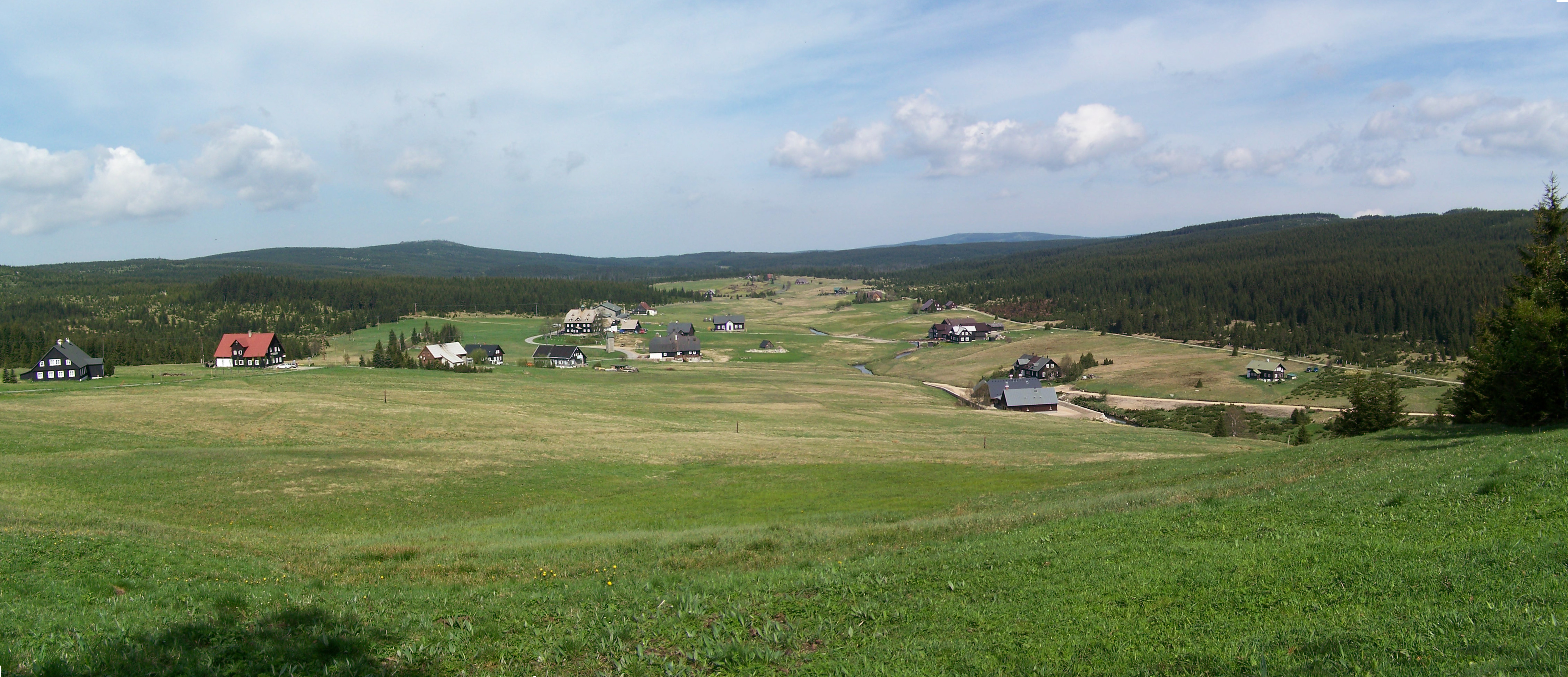 Panorama vista across Jizerka and the Jizera Mountains in the background. Seen from the foothill of Bukovec.